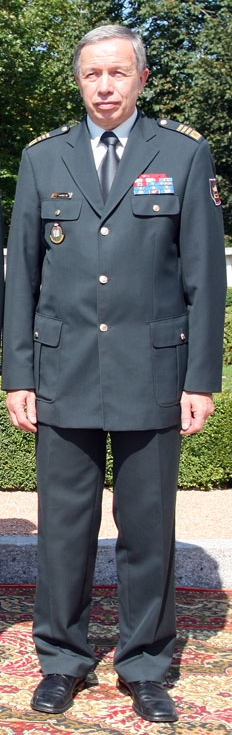 Karl Erjavec, Albin Gutman, Primož Kozmus, Rajmond Debevec and Lucija Polavder